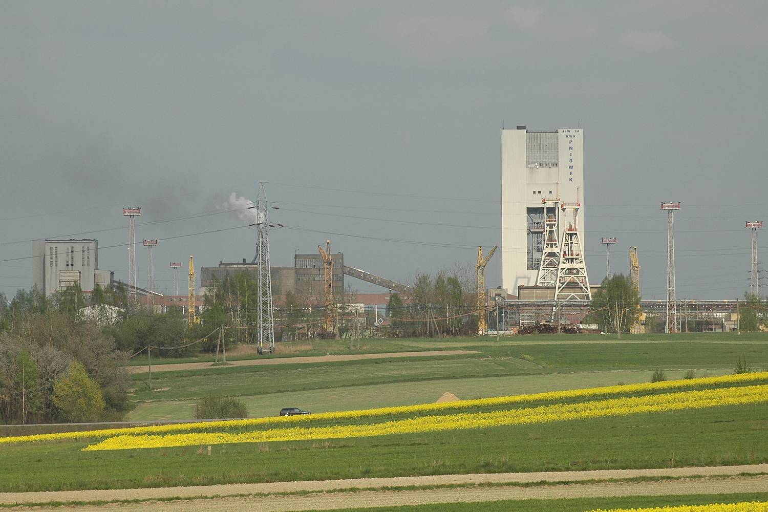 The "Pniówek" mine in Pniówek/Pawłowice near Jastrzębie-Zdrój, Poland